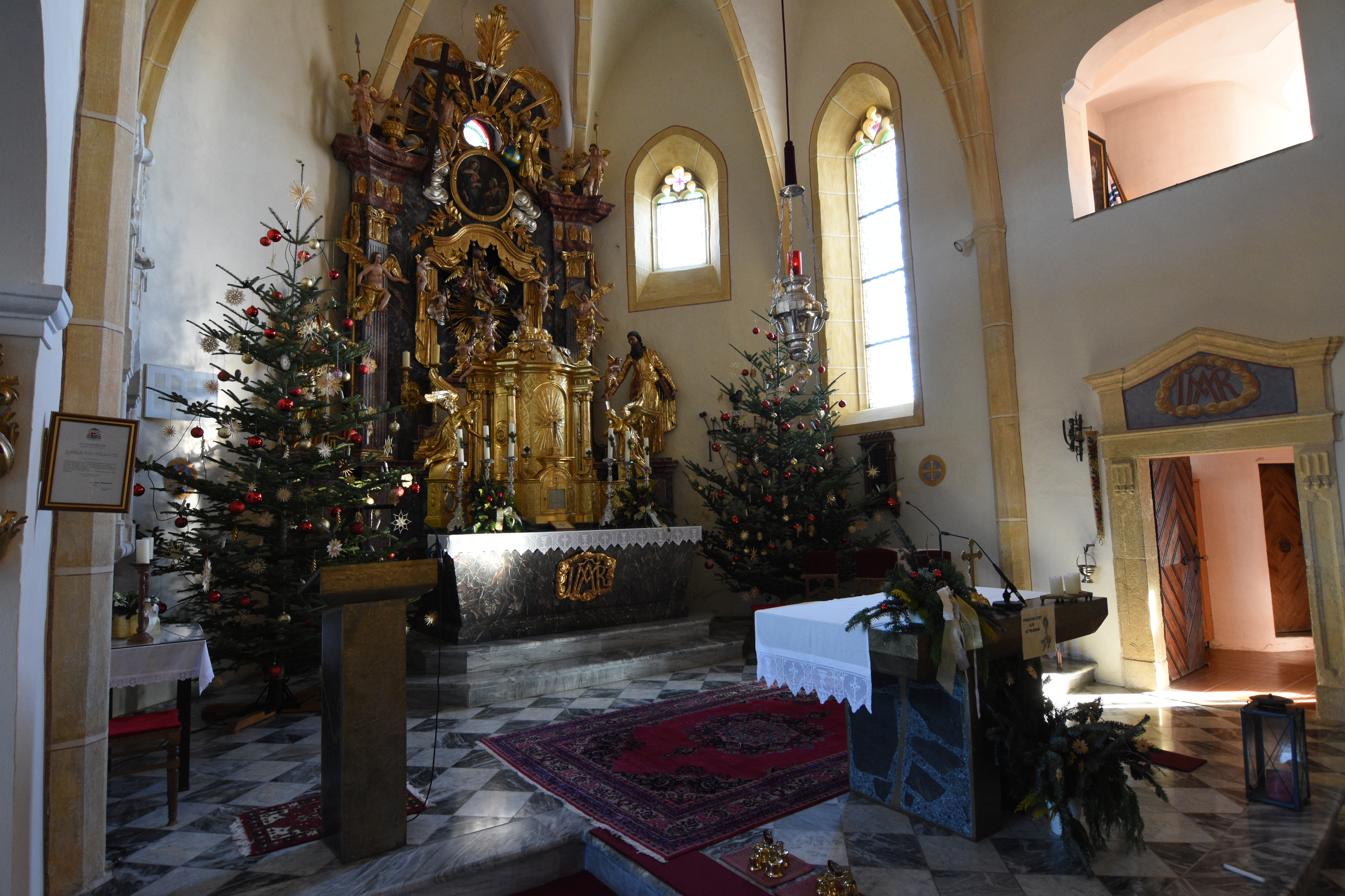 Church Osterwitz Interior